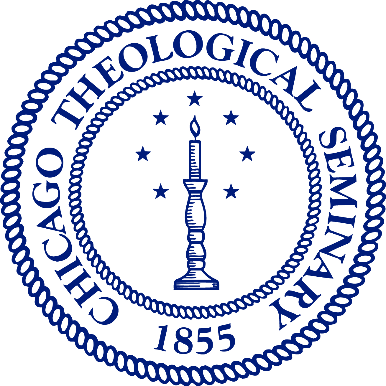 Seal of Chicago Theological Seminary